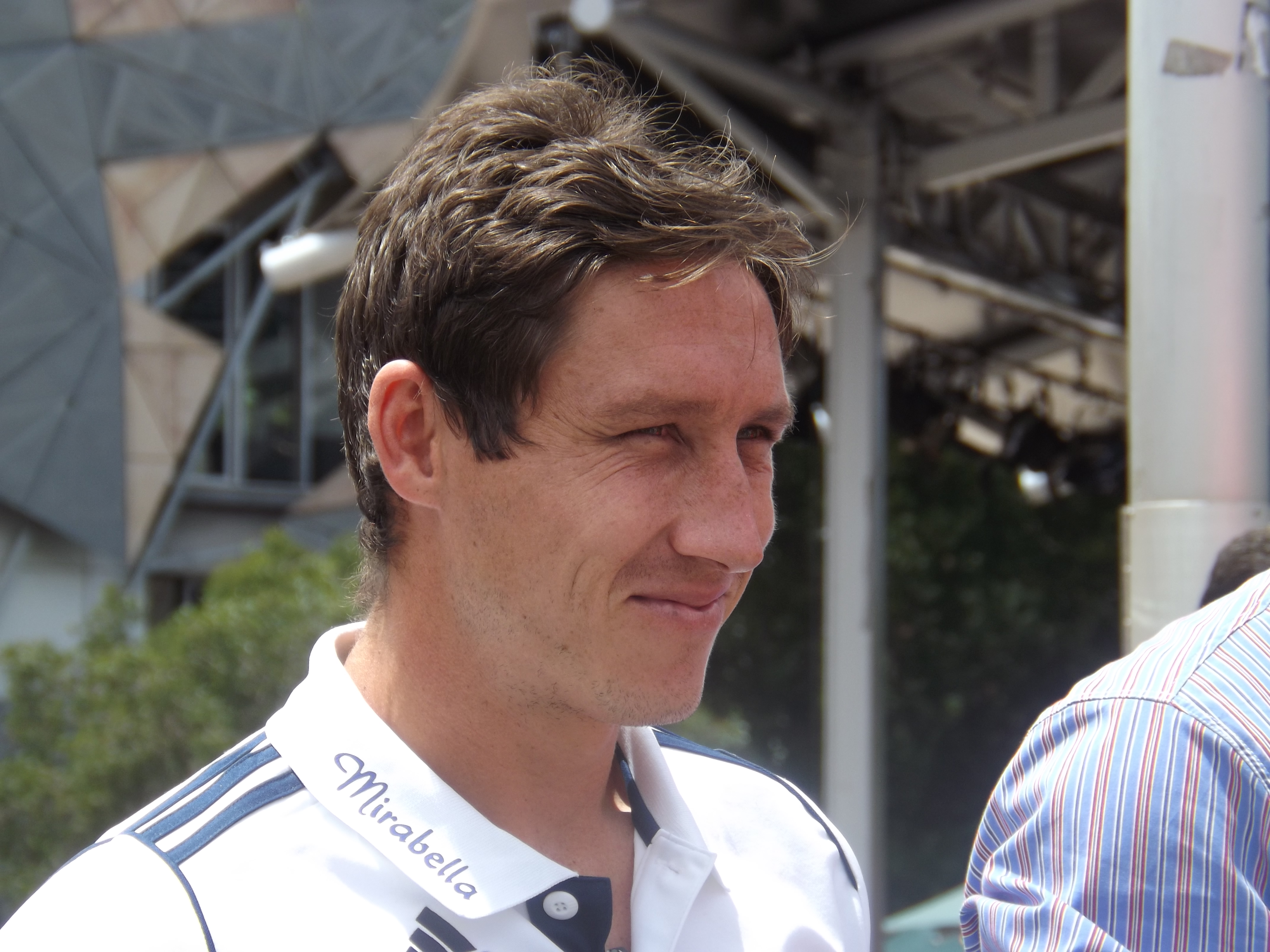 Mark Milligan during the 2015 AFC Asian Cup tour at Federation Square, Melbourne.